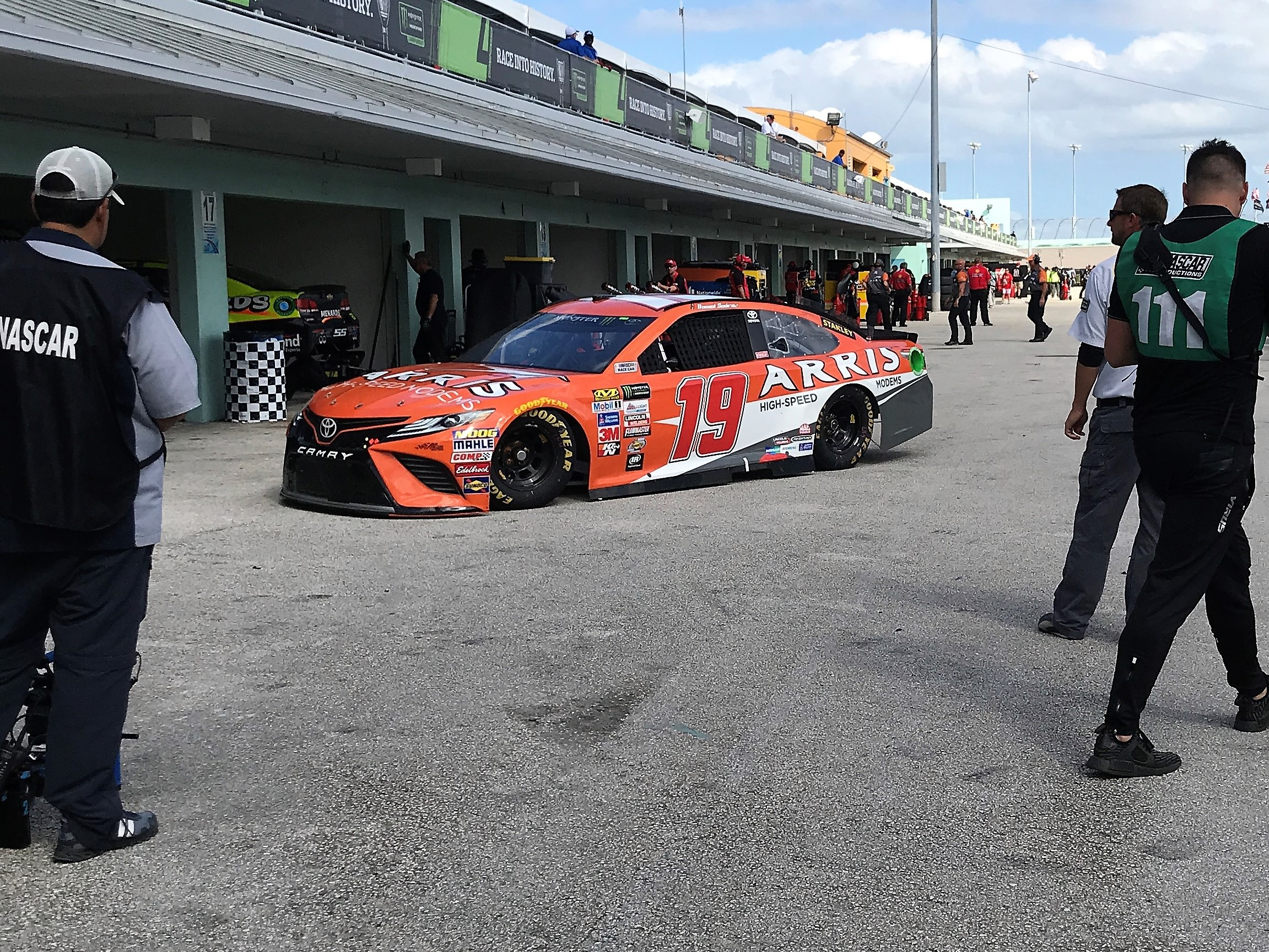 during practice for the Ford EcoBoost 400